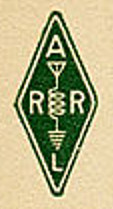 American Radio Relay League (ARRL) logo.